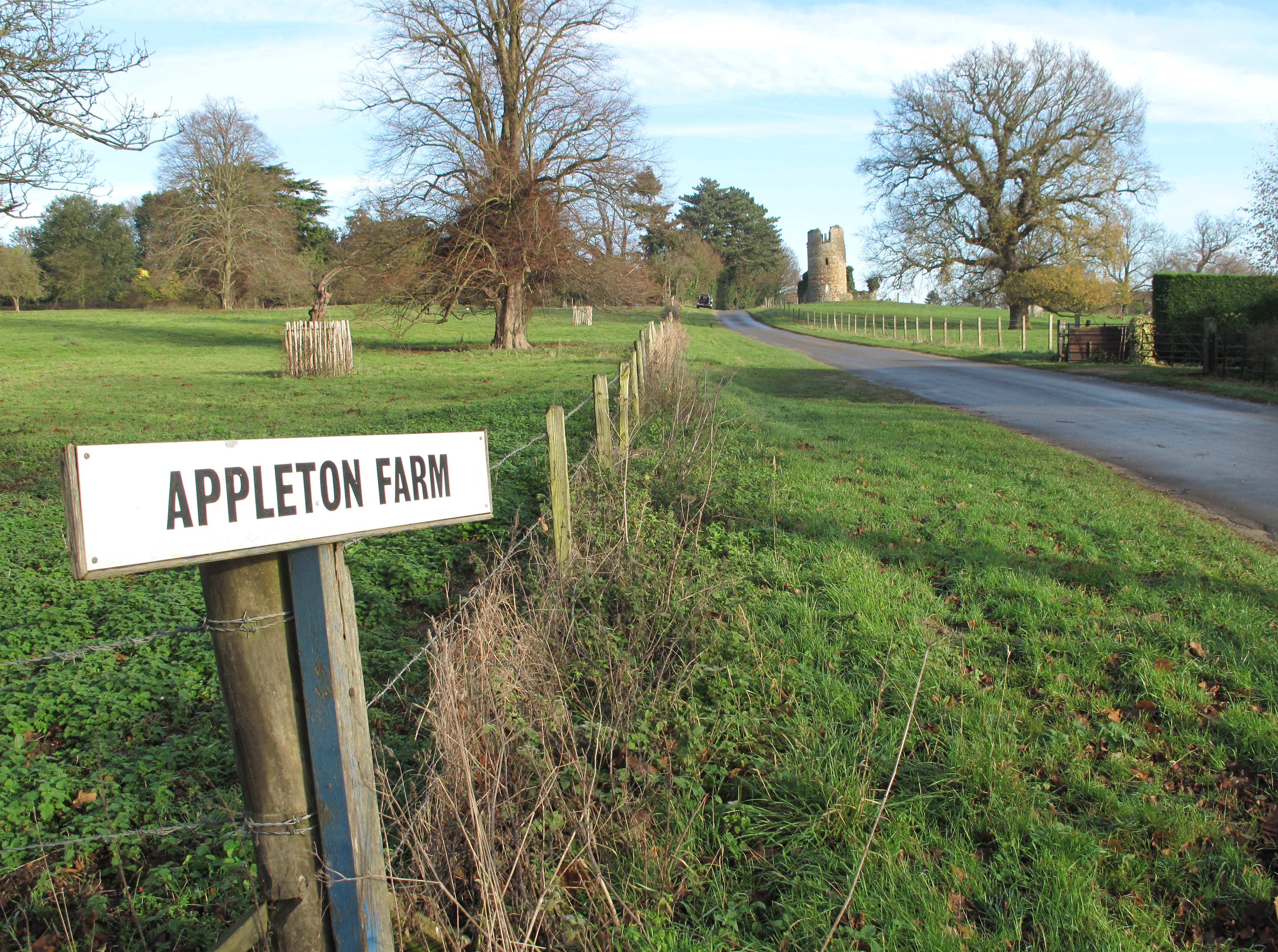 Appleton Farm, Sandringham Estate, Norfolk, England